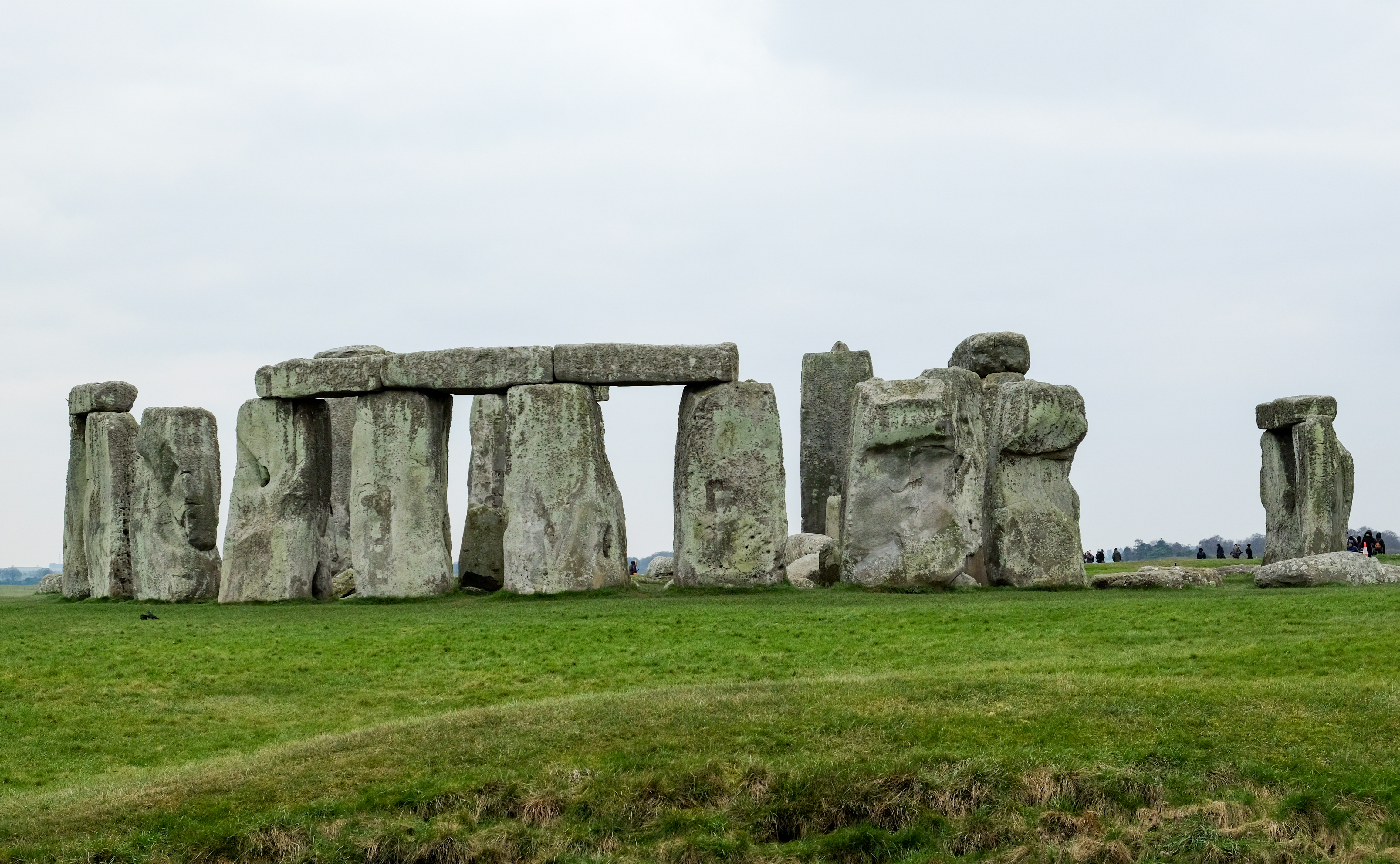 Stonehenge standing stones 2016, from the north-east. This place is a UNESCO World Heritage Site, listed as Stonehenge, Avebury and Associated Sites.